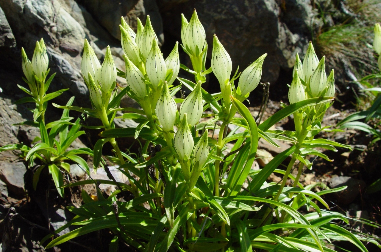 Gentiana algida, in Mount Shiomi, Japan.